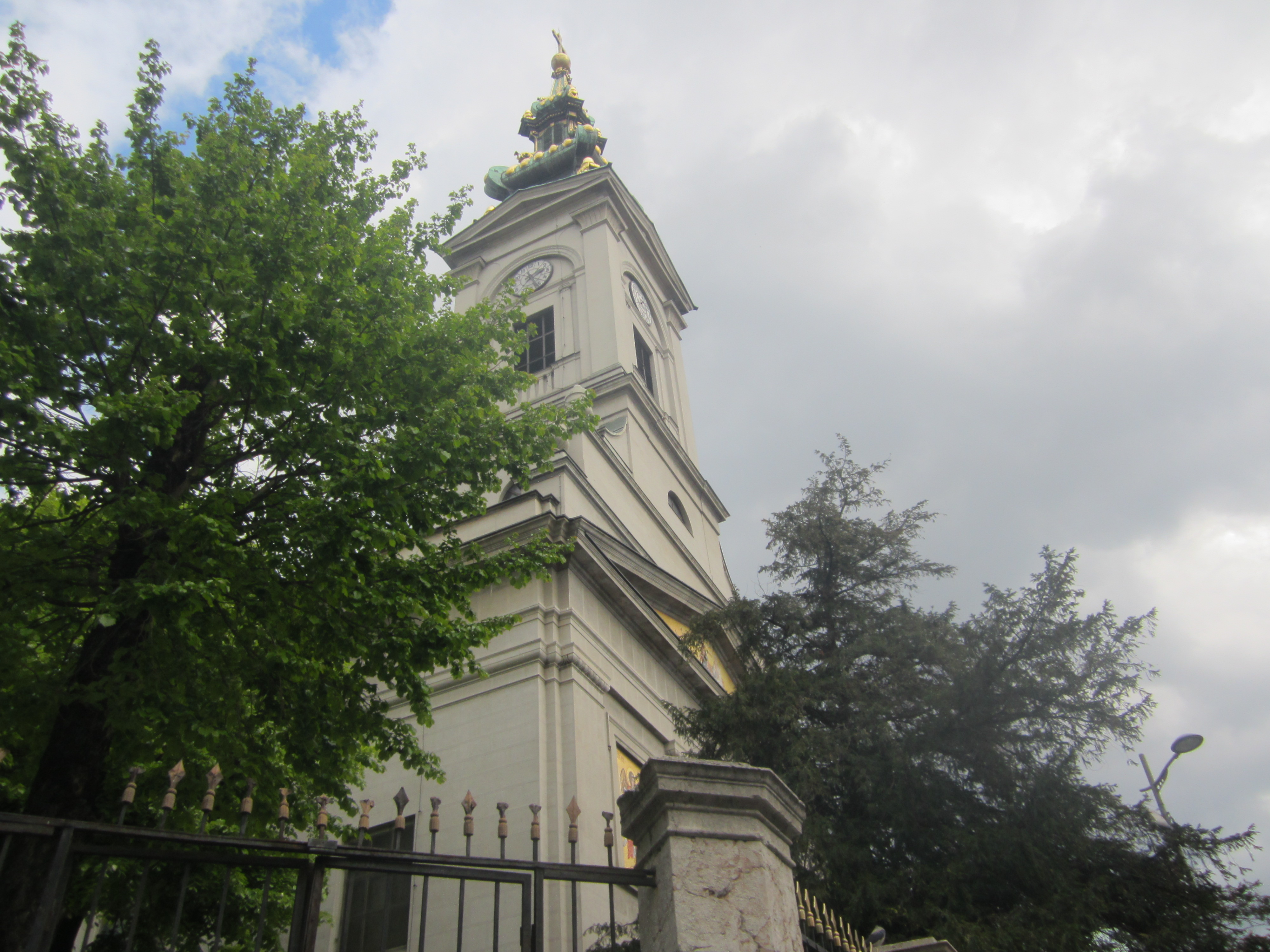 The Cathedral Church of St. Michael the Archangel (Serbian: Саборна Црква Св. Архангела Михаила, Saborna Crkva Sv. Arhangela Mihaila) is a Serb Orthodox Christian church in the centre of Belgrade, Serbia. It is one of the most important places of worship in the country. It is commonly known as just Saborna crkva (The Cathedral) among the city residents.